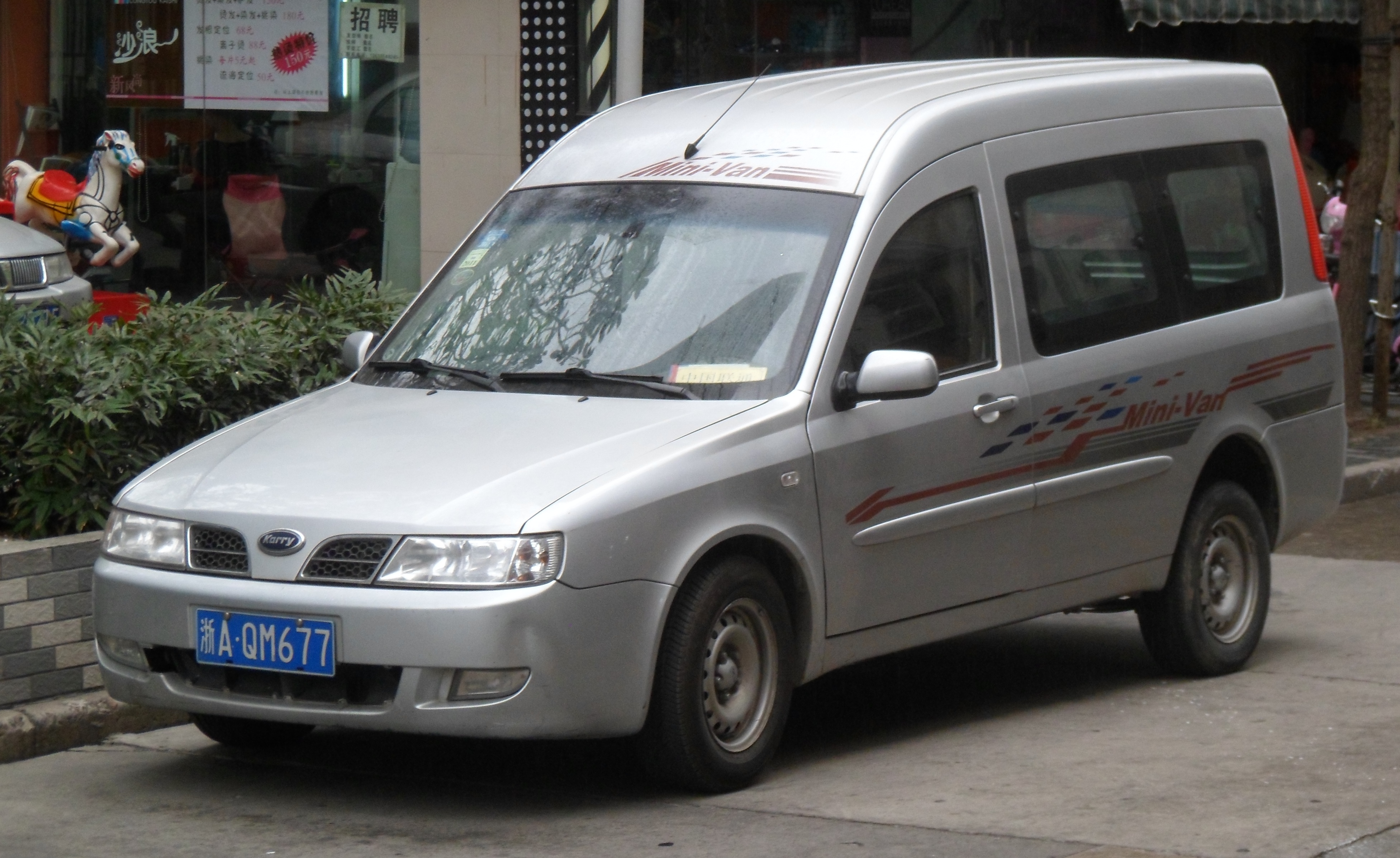 Karry Youyi photographed in Shanghai, China.